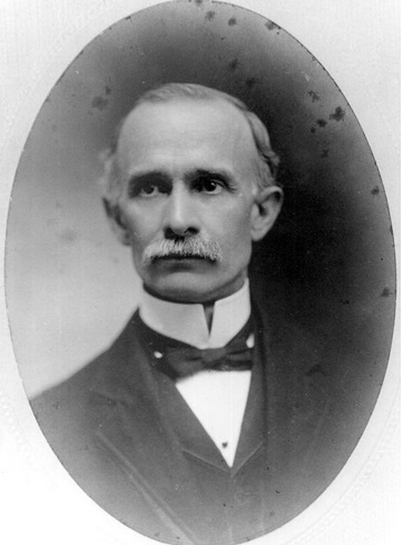 Portrait of Florida Lawyer, James B. Whitfield